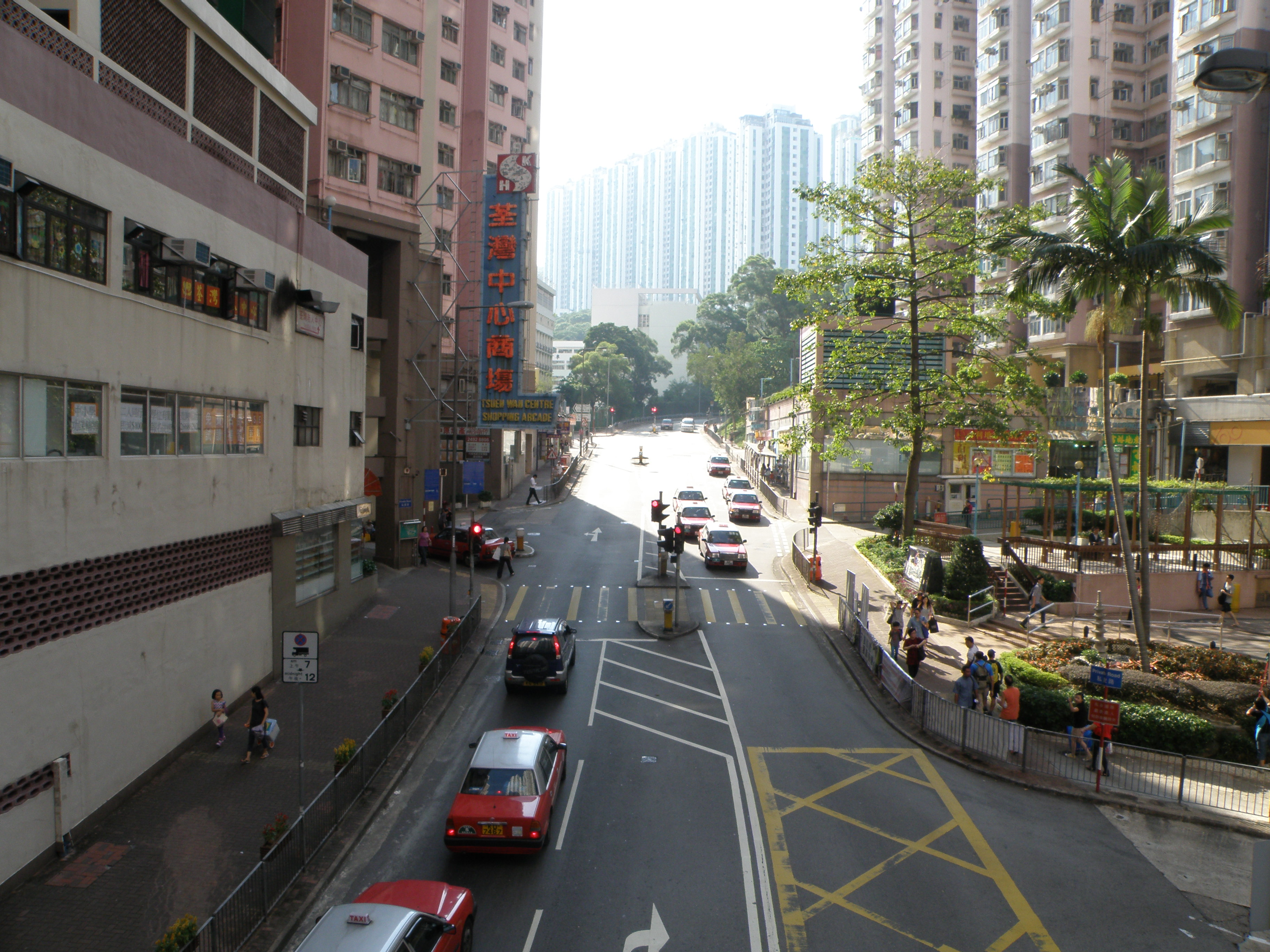 Tsuen King Circuit in Tsuen Wan, Hong Kong.